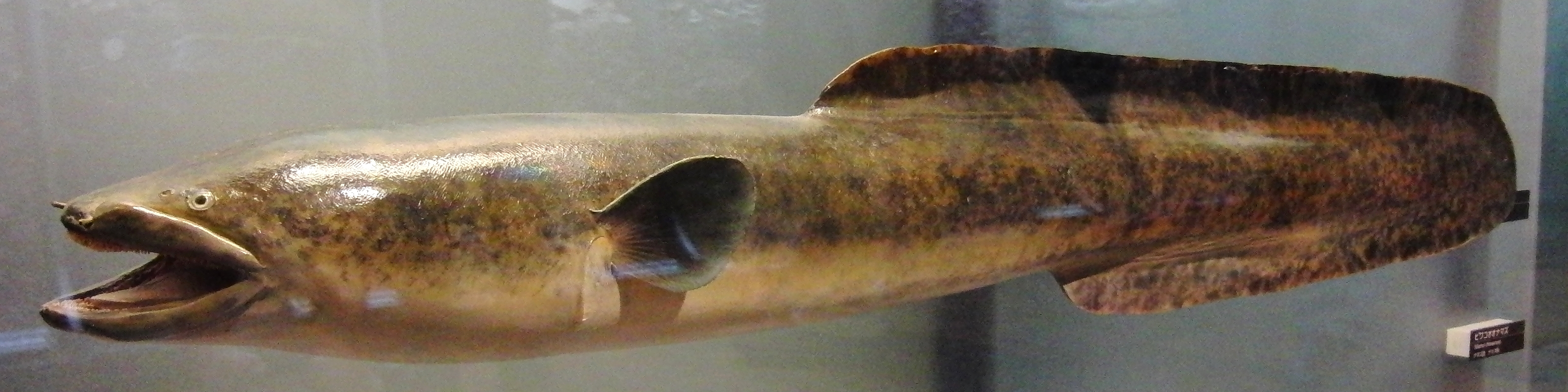 Stuffed specimen of Giant mottled eel (Anguilla marmorata). Exhibit in the National Museum of Nature and Science, Tokyo, Japan.